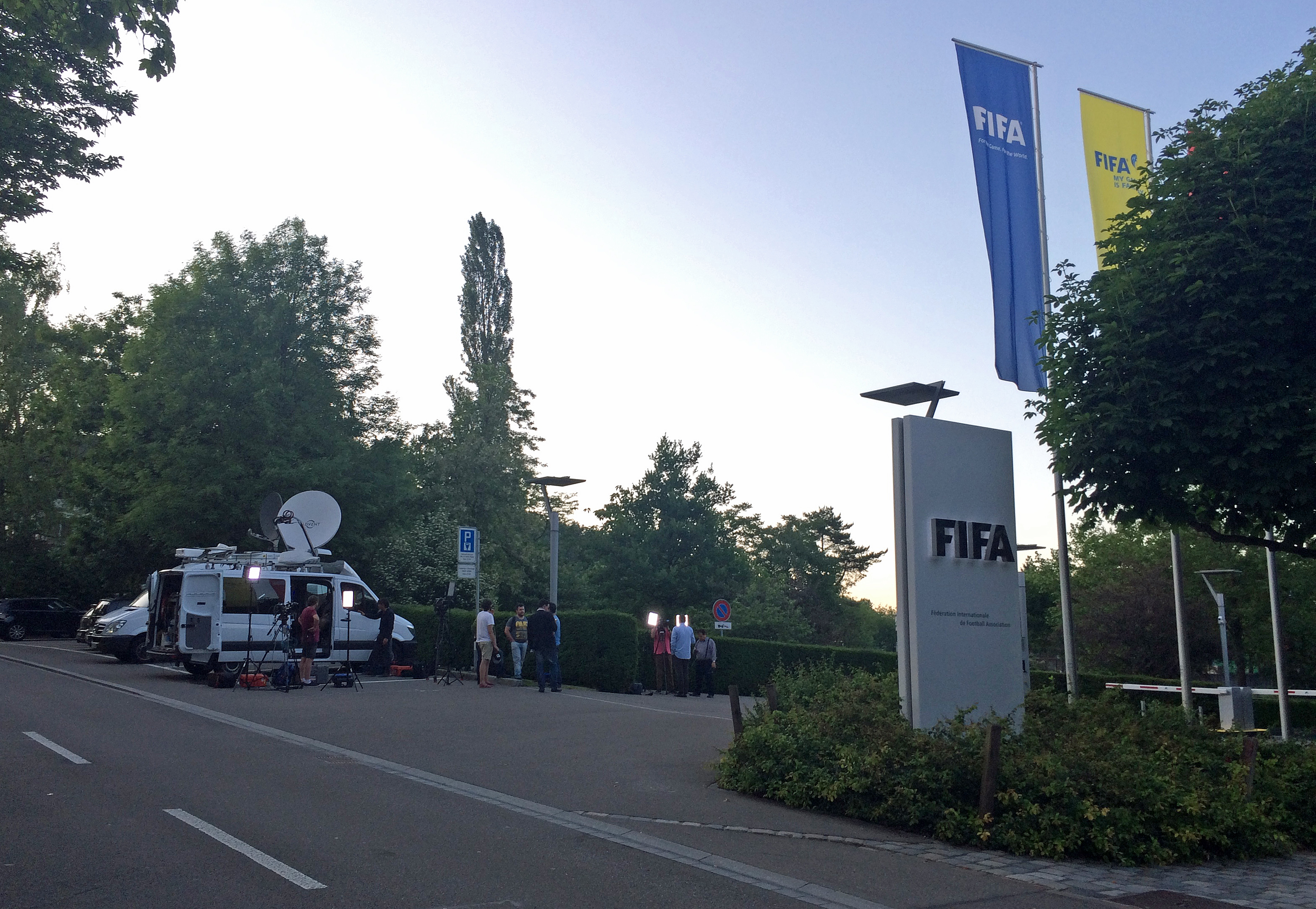 Media in front of FIFA headquarters in Zurich, Switzerland, reporting on the corruption case and Sepp Blatter's resignation